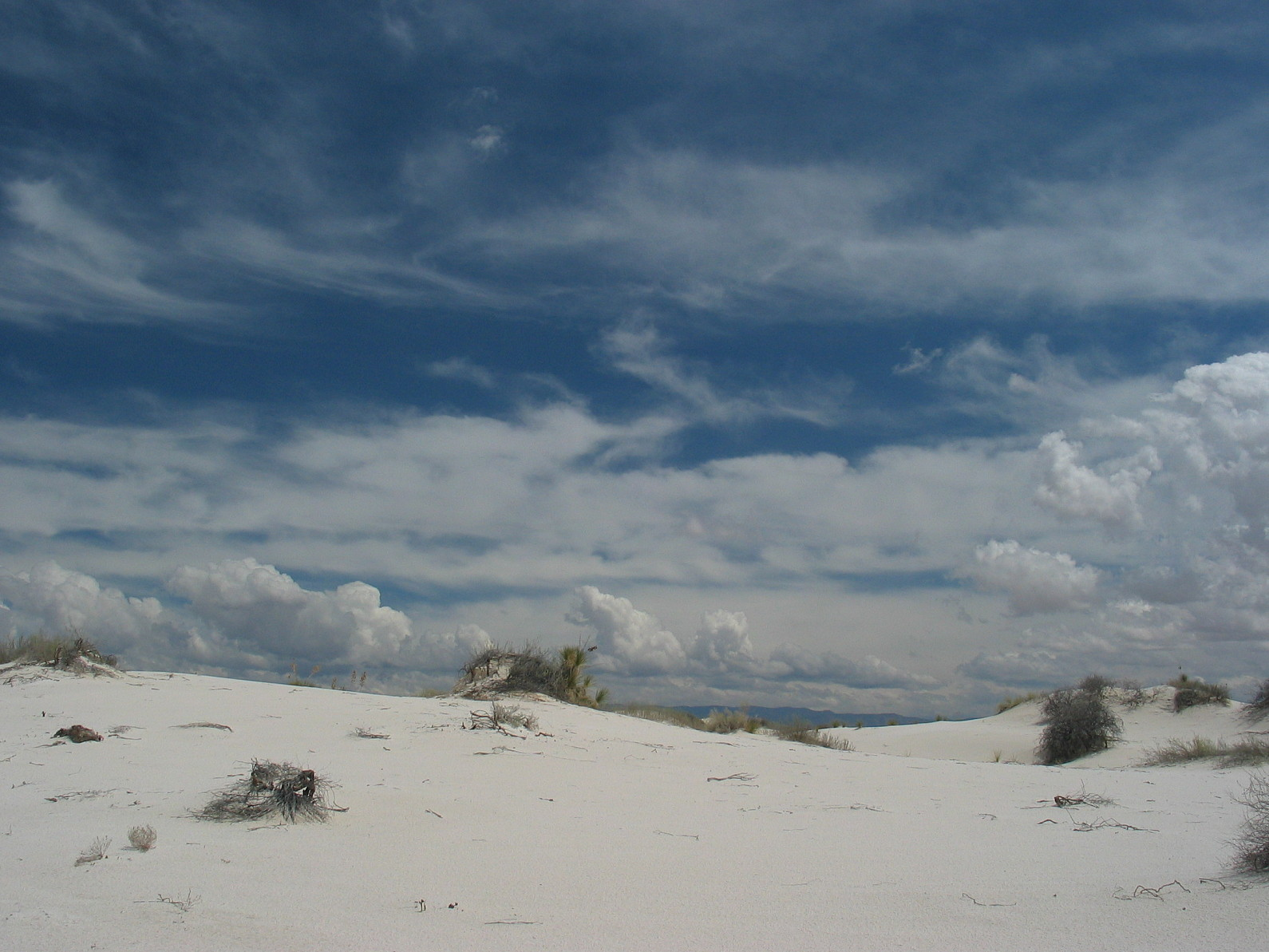 Sparse vegetation in the gypsum dunes of White Sands National Monument.